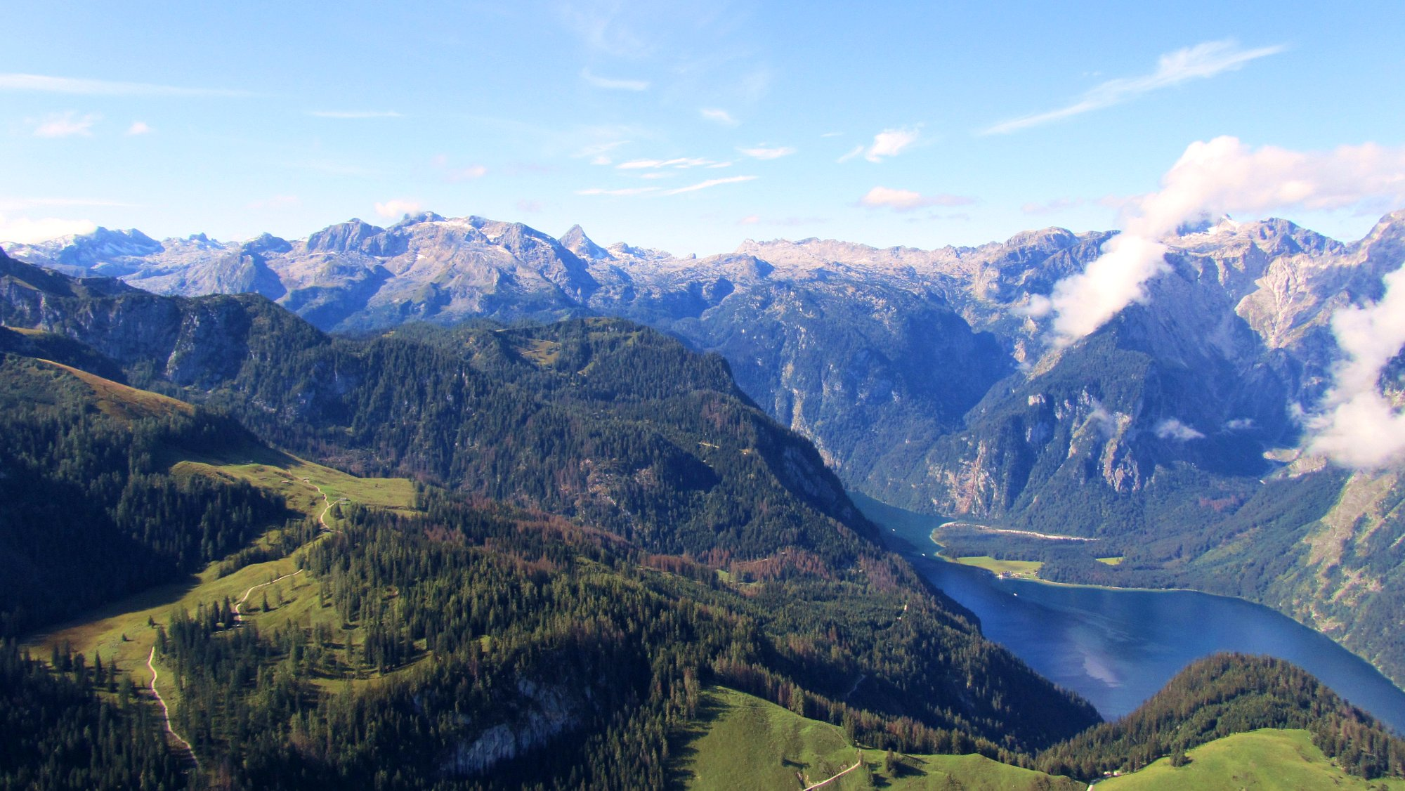 Germany / Alps / Mountain Jenner: View to Königssee